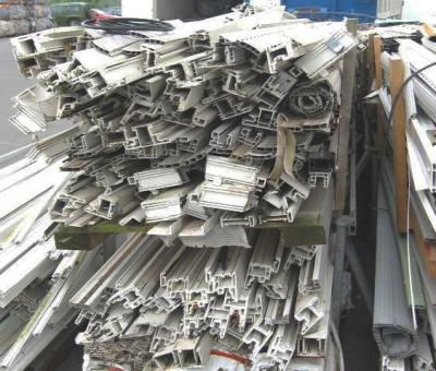 PVC wastes from profile windows